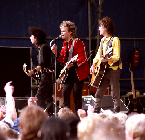 The Alarm, Isle of Calf Festival, Norway